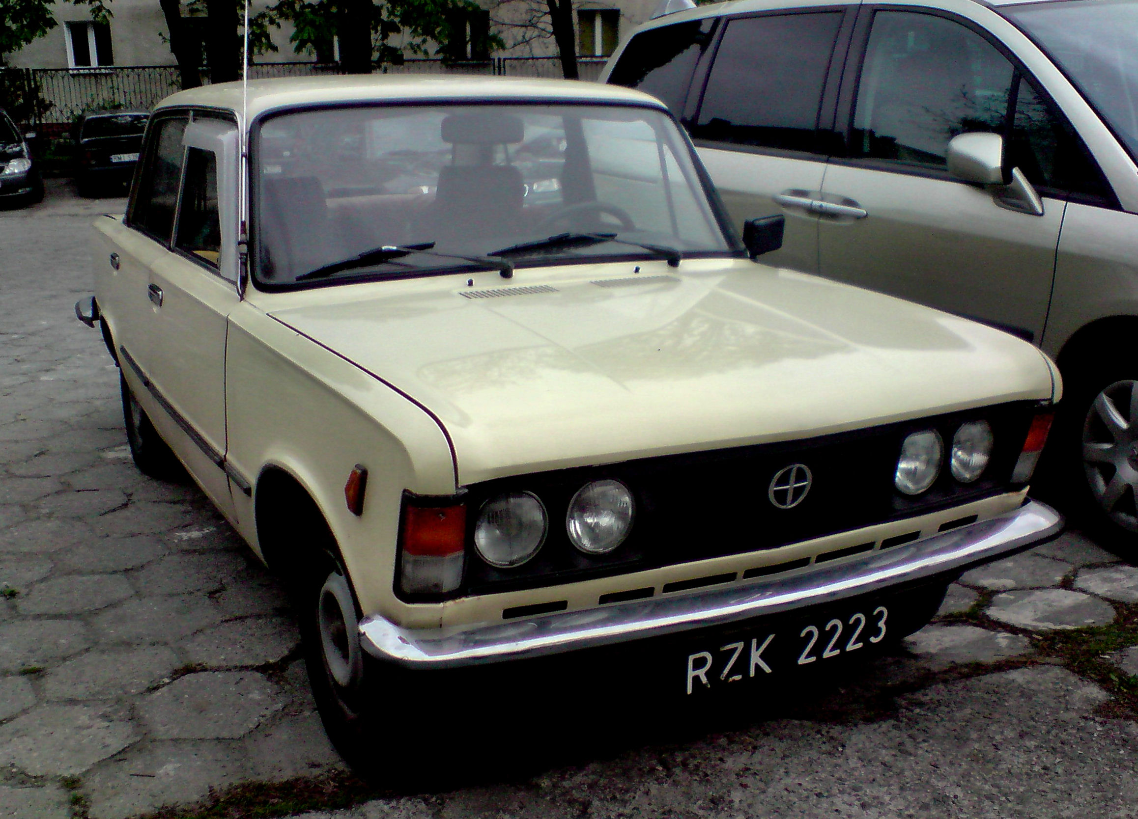 FSO 125p seen in Rzeszów, Poland.